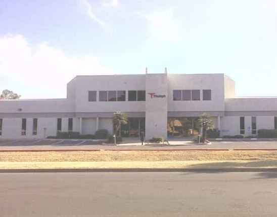 Photo of Triumph Engines on Campus Drive in Tempe, Arizona United States